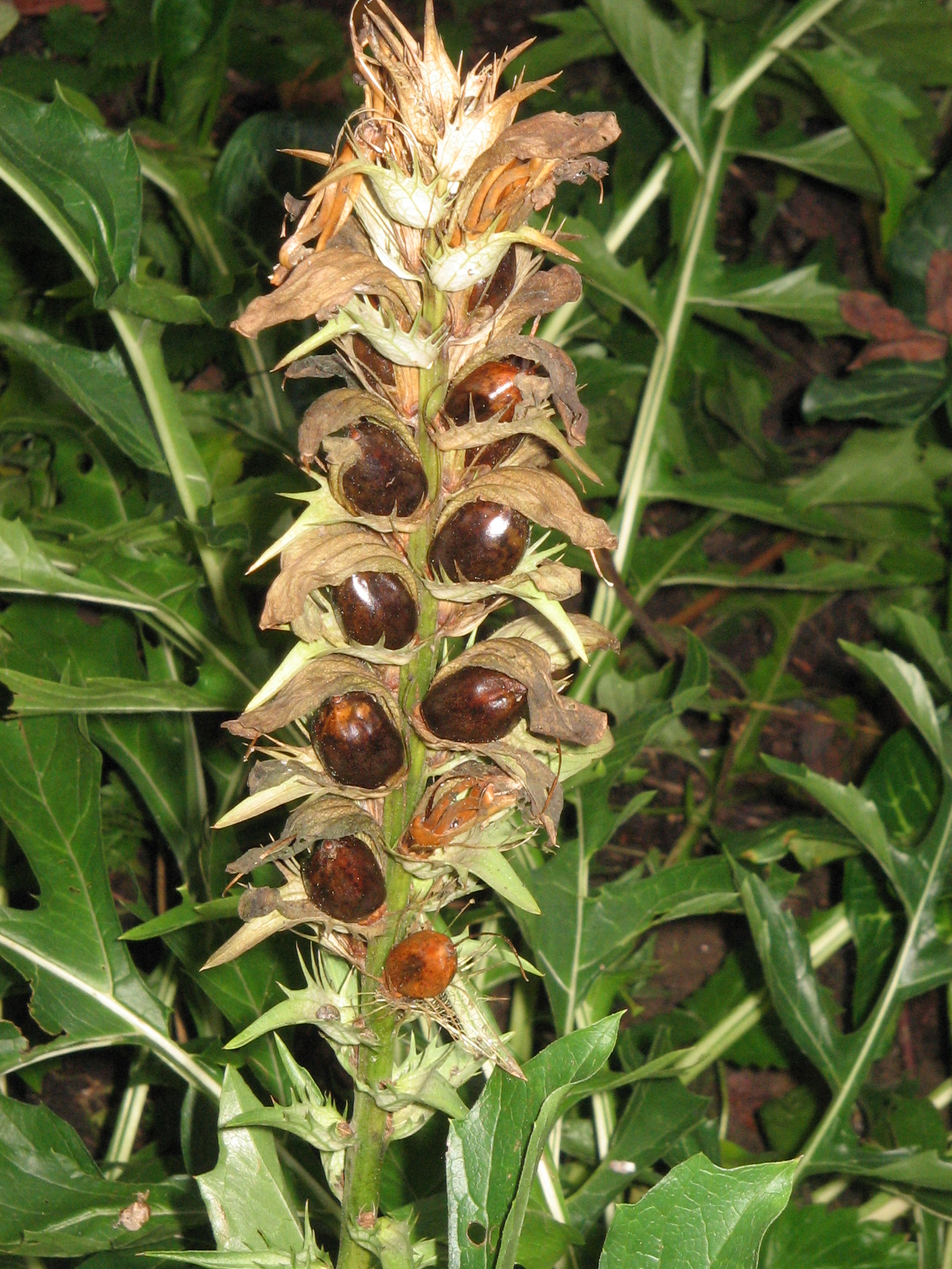 Acanthus balcanicus fruits